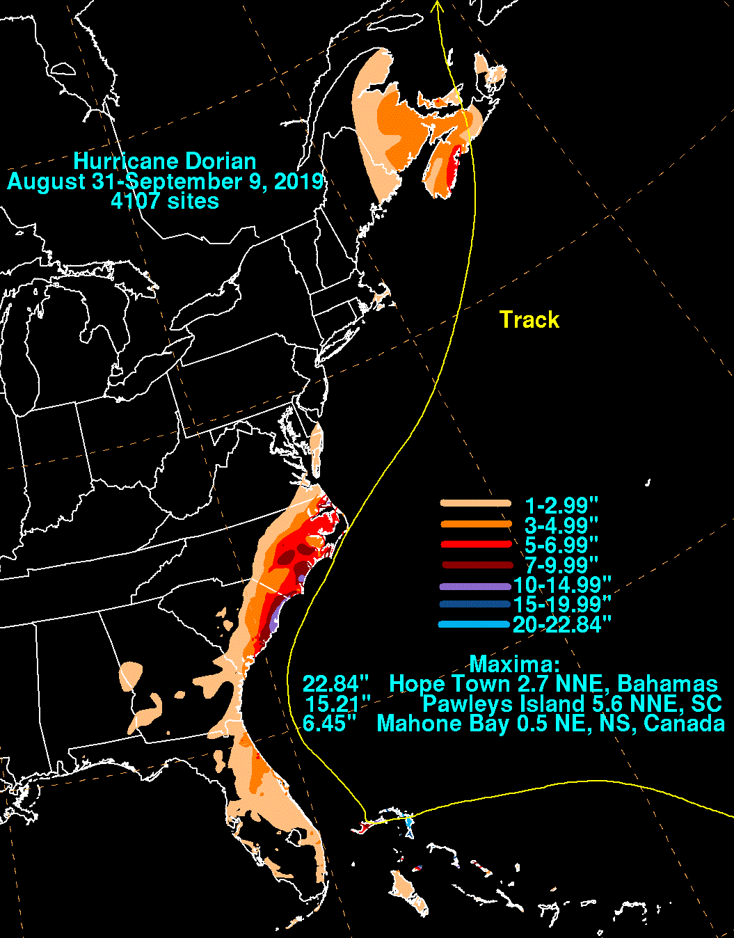 The graphics show the storm total rainfall for Dorian, which used rain gage information from the National Weather Service River Forecast Centers, Forecast Offices, and CoCoRAHS.